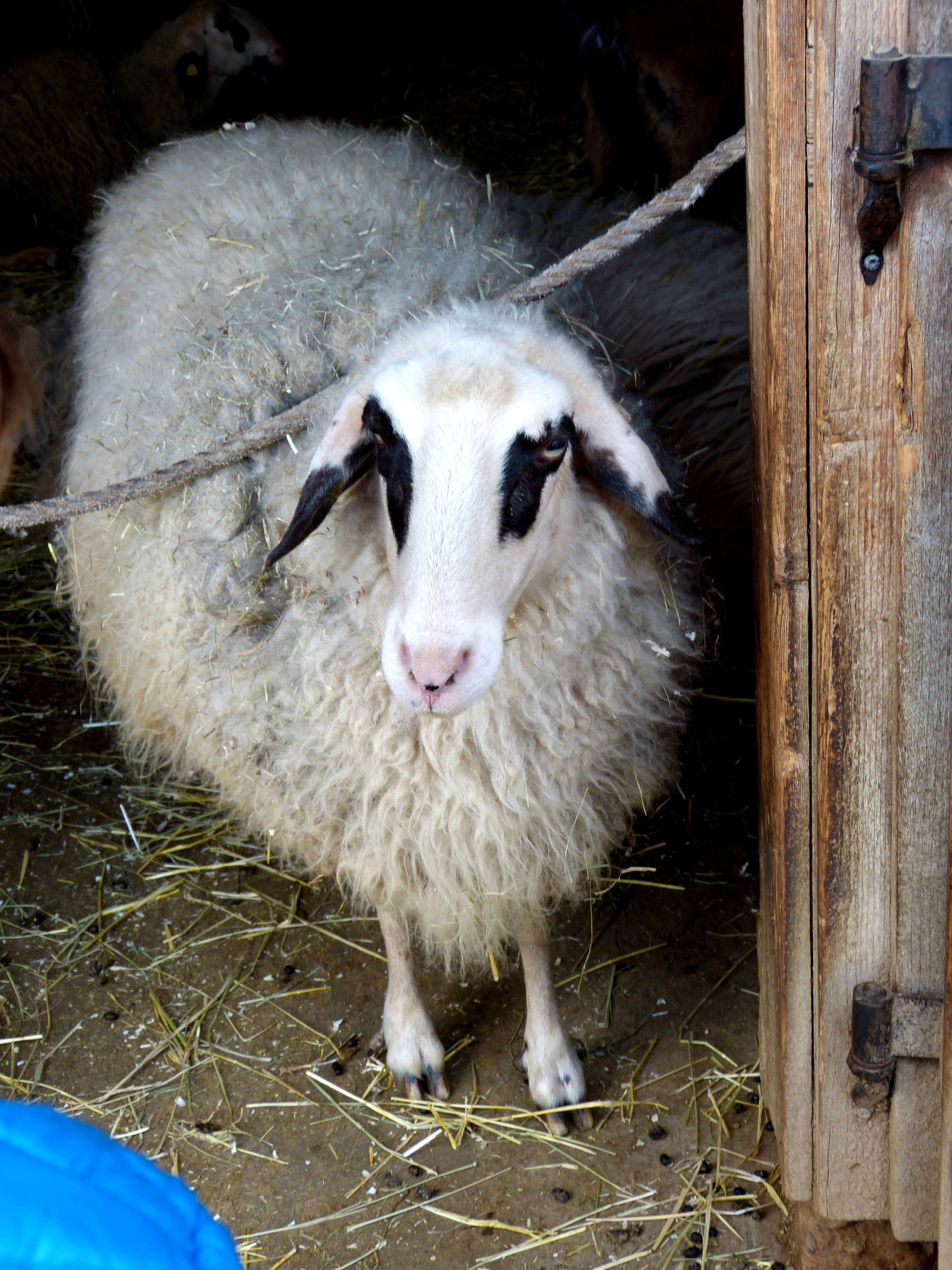 Schloss Hof ( Lower Austria ). Carinthian spectacled sheep.